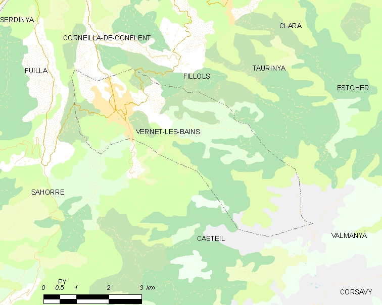 Map of French municipality